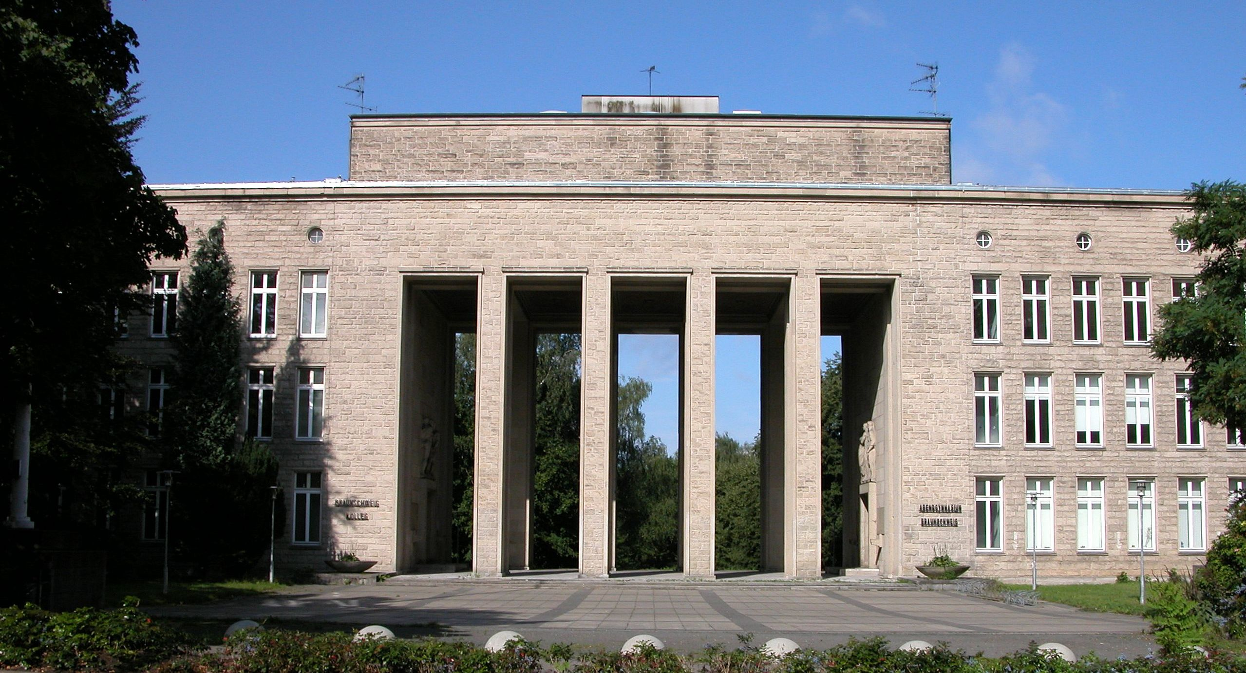 Brunswick, Germany: Akademie für deutsche Jugendführung.